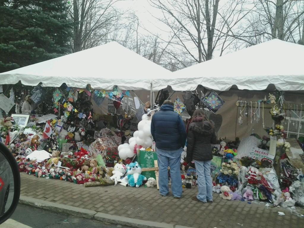 The Sandy Hook Elementary School makeshift memorial on Washington Avenue in Sandy Hook, Conn., 12 days after the shootings at Sandy Hook Elementary School. (Wed 12/26)